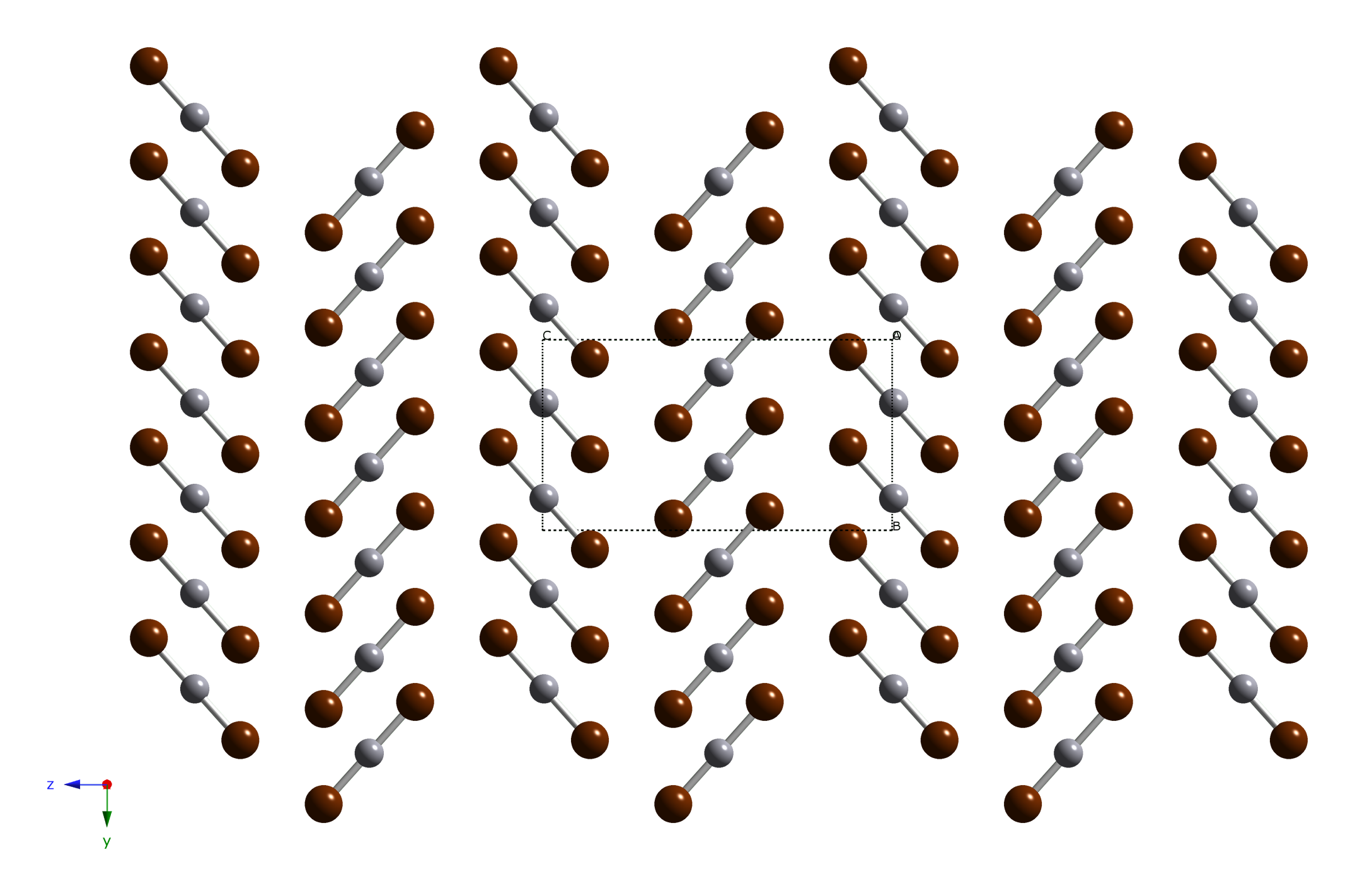 Ball-and-stick diagram of part of the crystal structure of the low-temperature polymorph of mercury(II) bromide, HgBr2. Colour code: Mercury, Hg: grey Bromine, Br: red-brown Crystal structure from Zh. Neorg. Khim. (1990) 35, 2476–2478. Image generated in CrystalMaker 8.2.